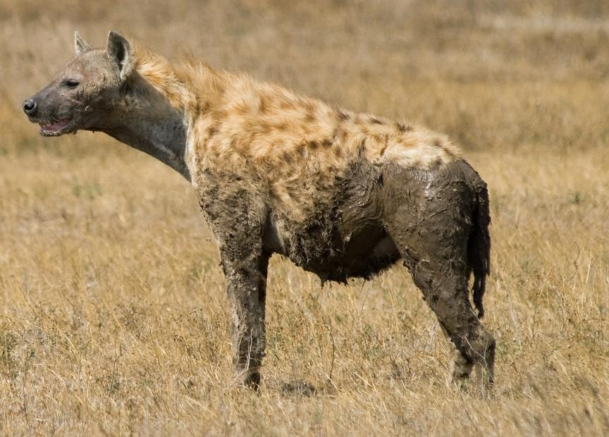 Is a crop of Spotted_Hyena_in_Serengeti2.jpg, made for the purpose of infobox dislpay. Though the original showed the animal's whole body, the hyena was but a small part of the picture.